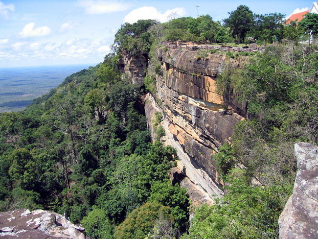 Khao Phra Wihan National Park – Border between Thailand and Cambodia.